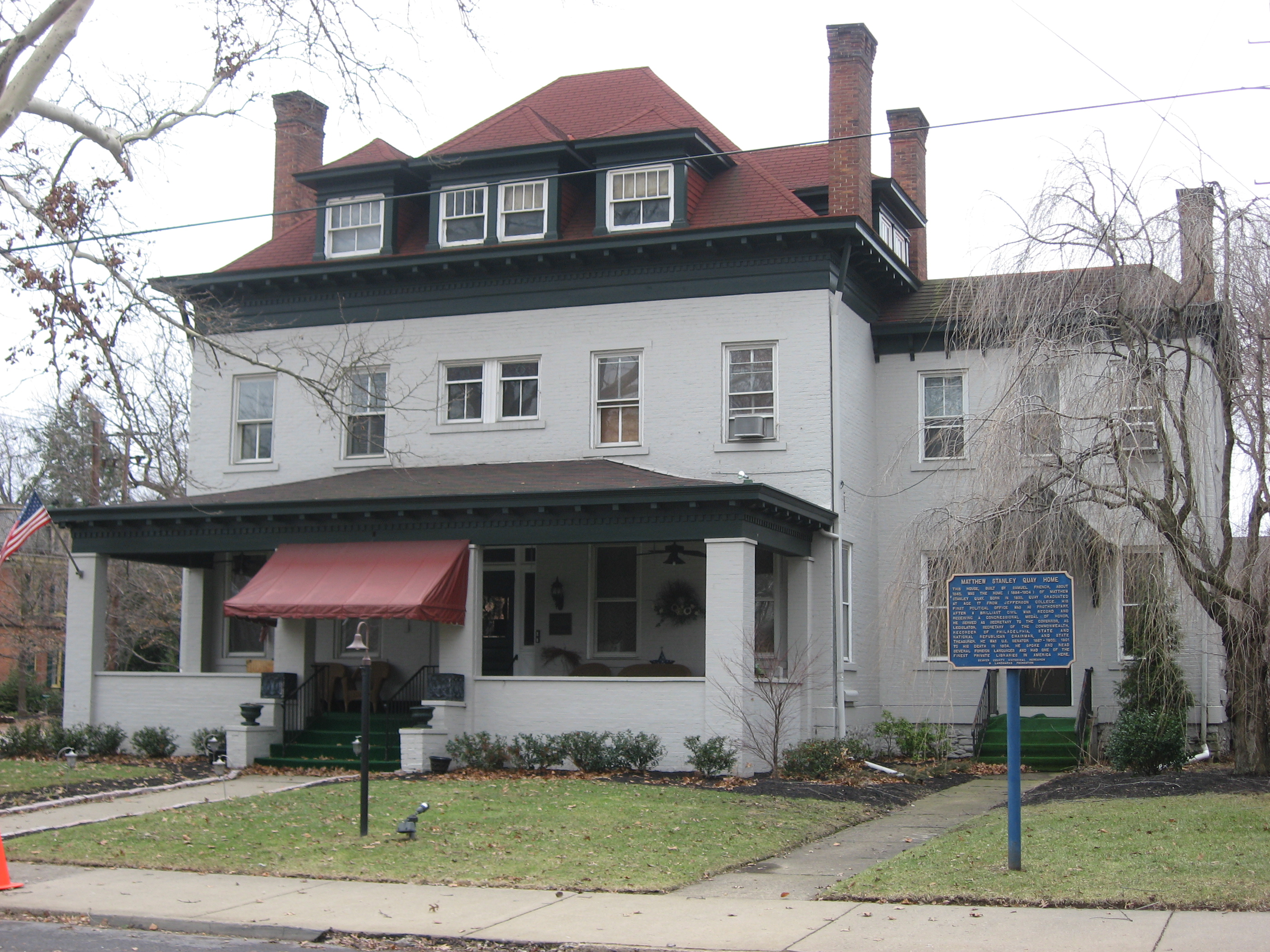 Streetside view of the Matthew S. Quay House, a National Historic Landmark in Beaver, Pennsylvania, United States. Once the home of Matthew Quay, a prominent member of the Republican Party, it was built in 1874. Today, the house is the location of the J.T. Anderson Funeral Home. It is a part of the Beaver Historic District.